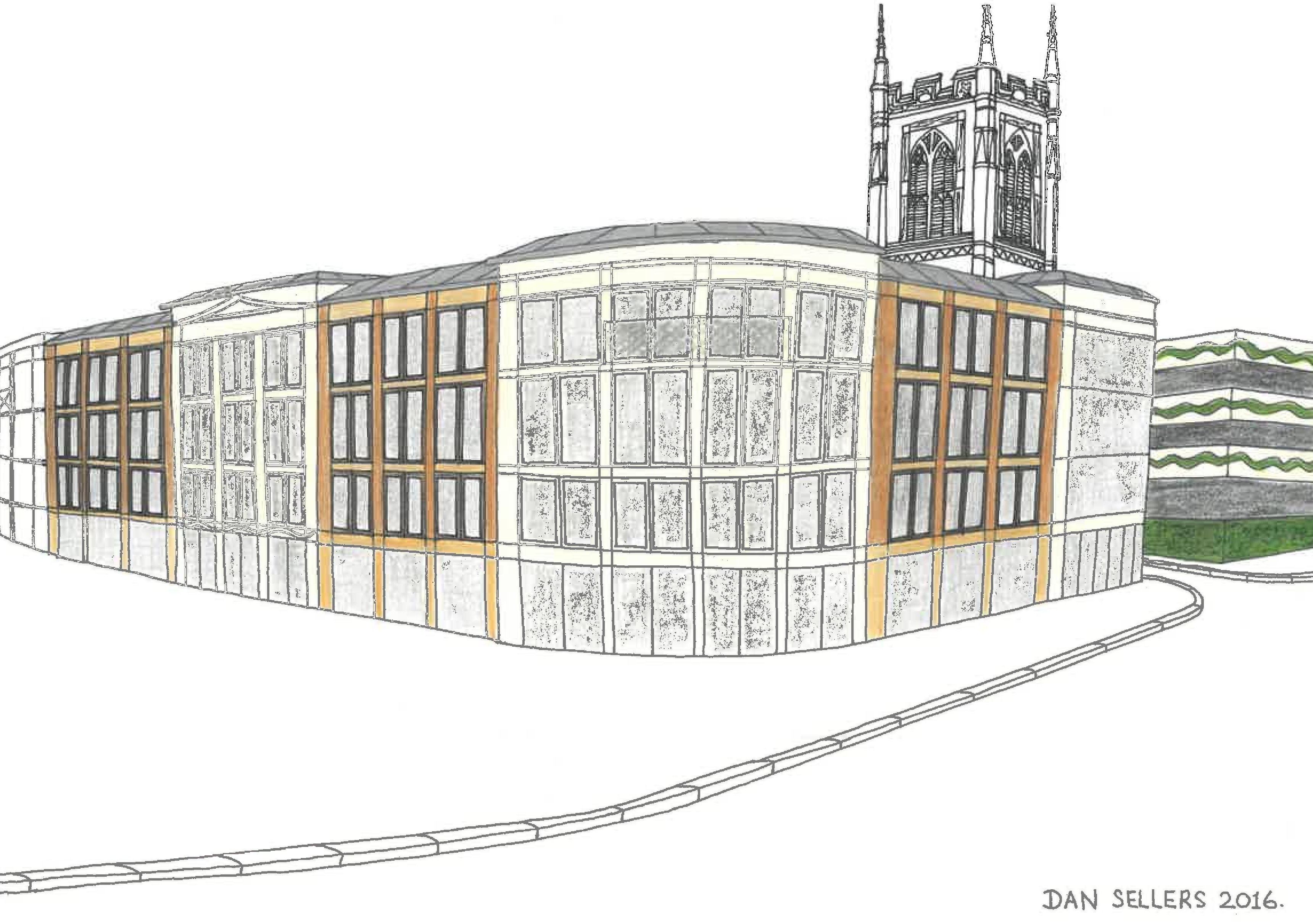 A study of suggested redevelopment of the Assembly Rooms site, Derby, November 2016